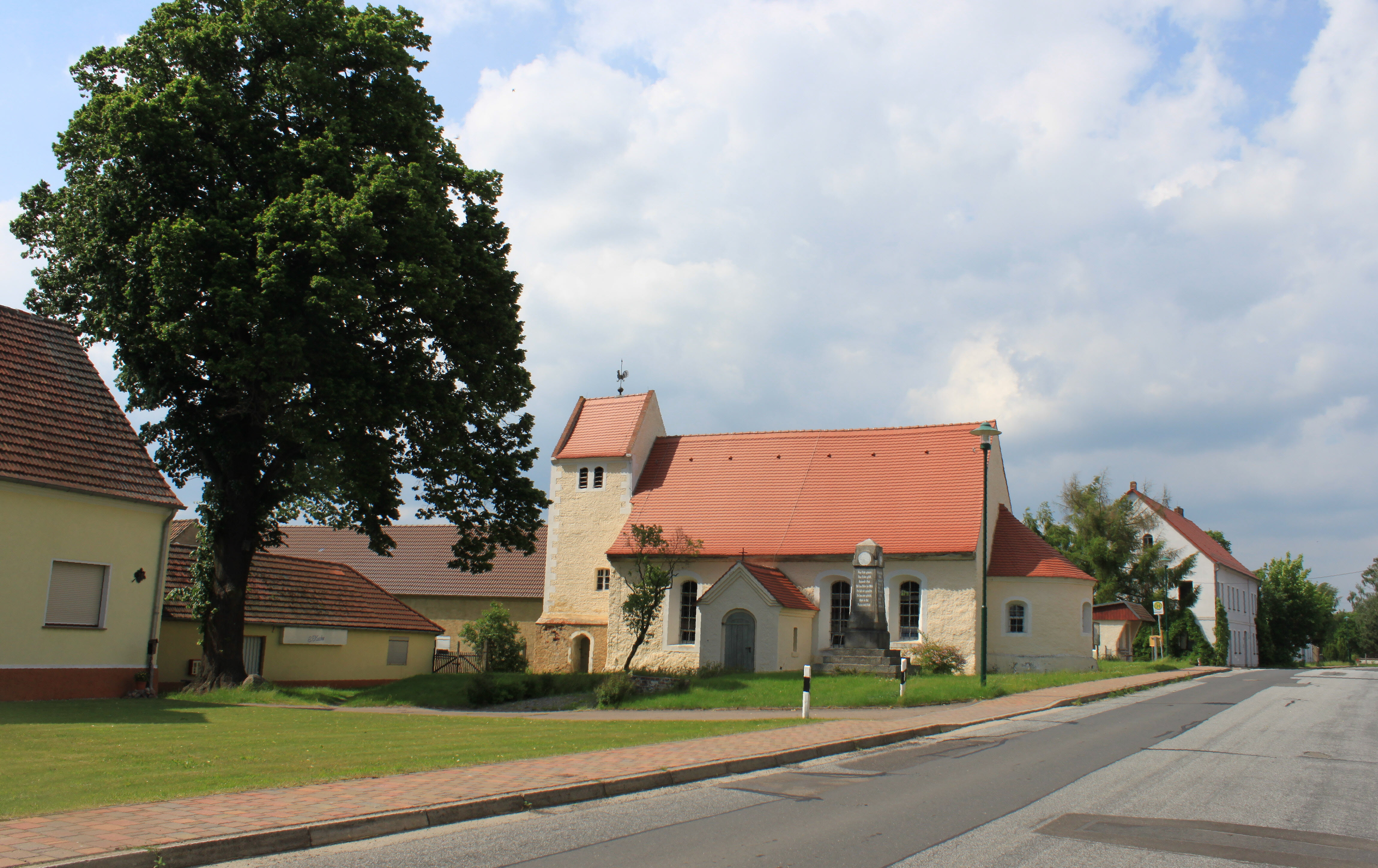 church in Hillmersdorf